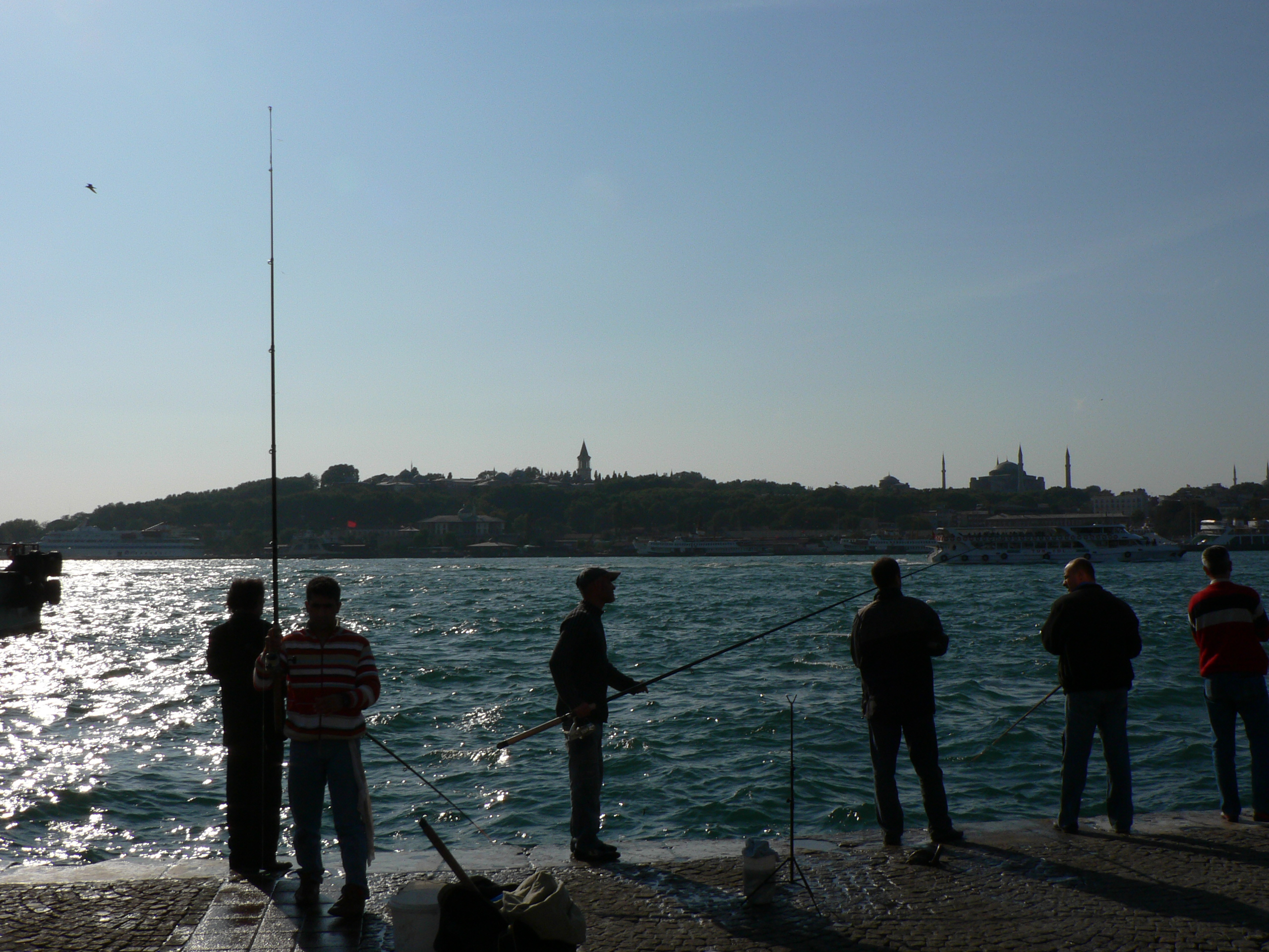 Fishermen near Galata bridge, Istanbul